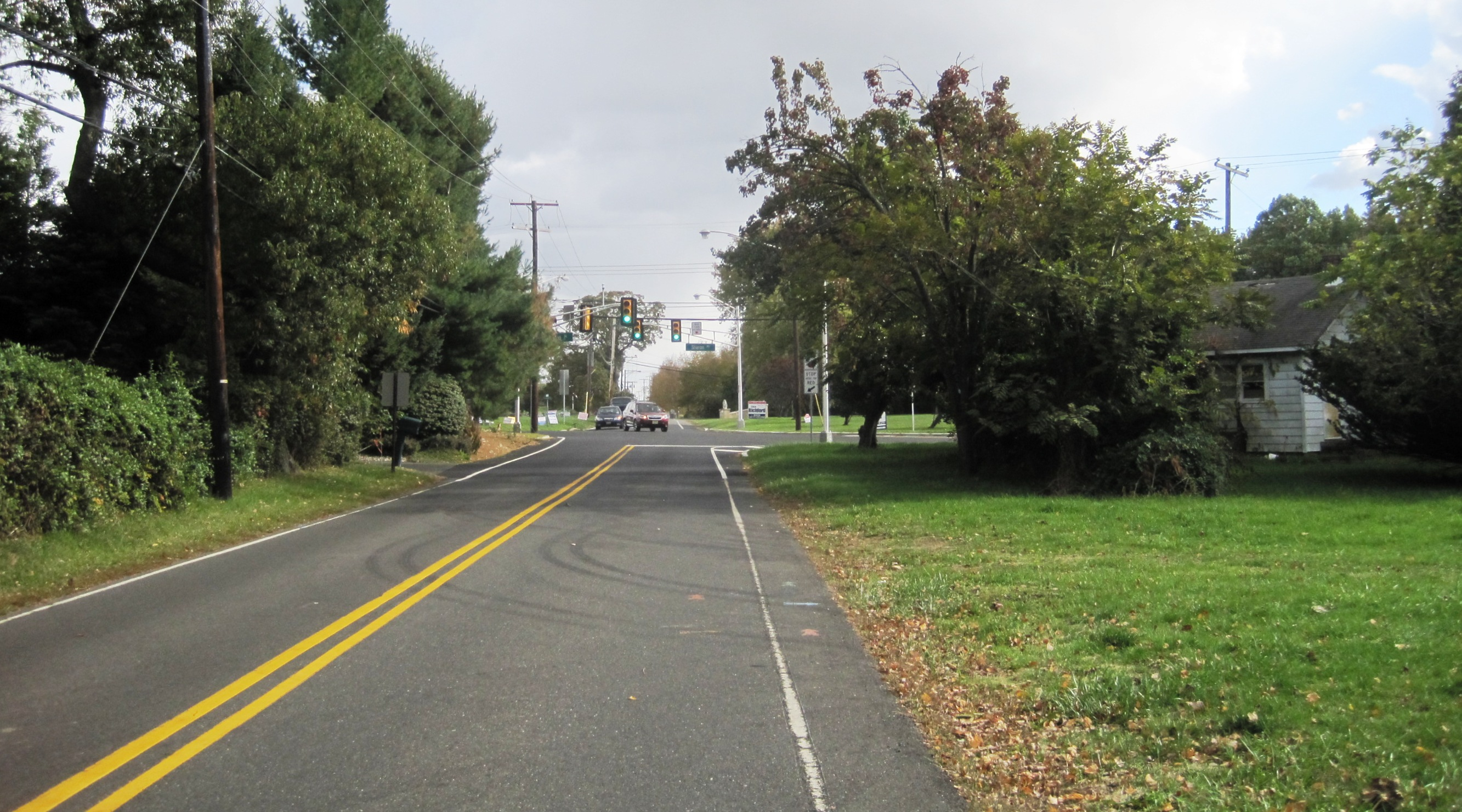 Photo of Pages Corners, New Jersey, an unincorporated community within Robbinsville Township. Photo taken at the intersection of Gordon Road (ahead) and Sharon Road (crossing road) looking south.